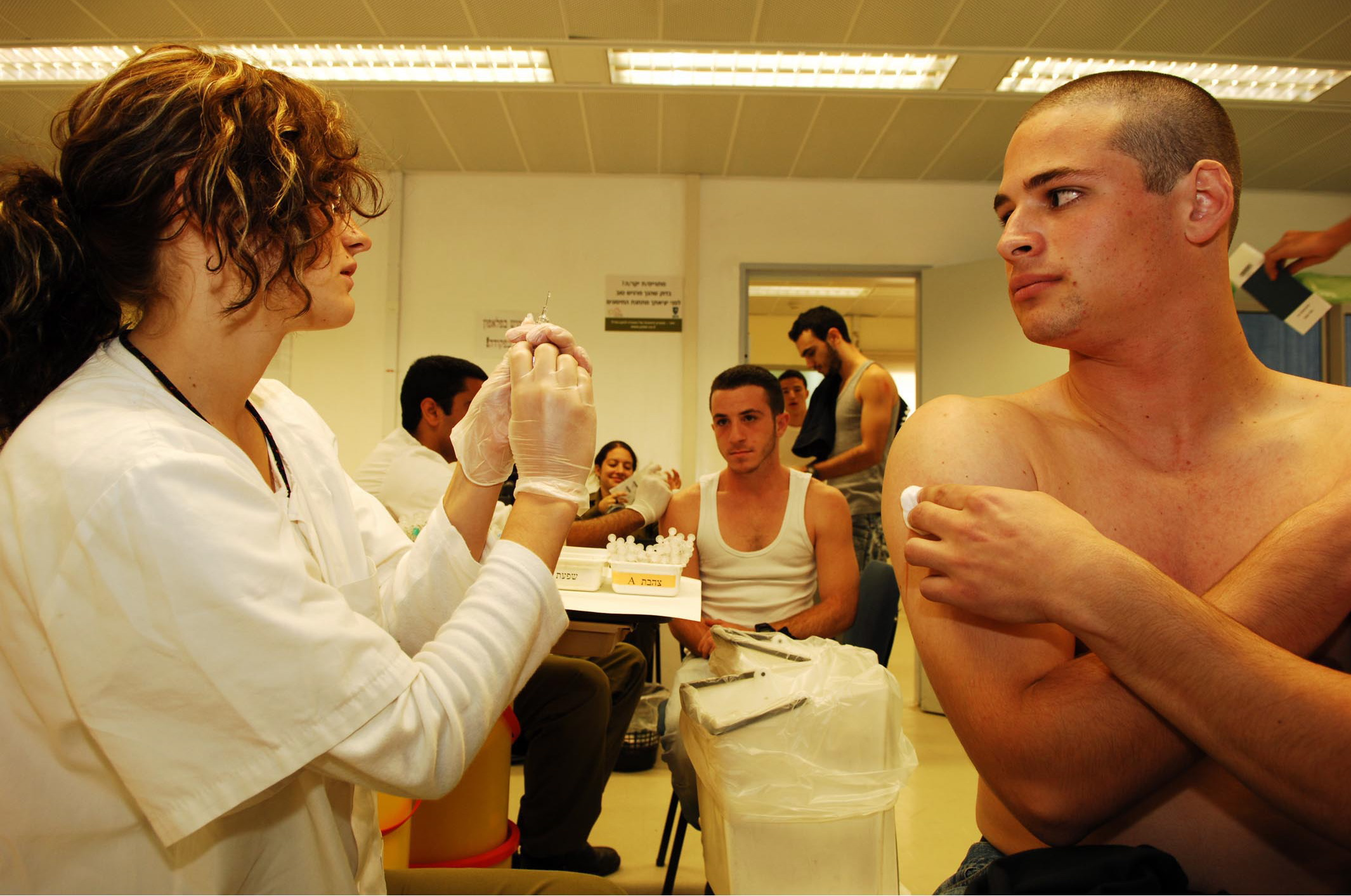 A soldier is relieved after having received his immunization. He as well as many others that day were recruited for the Givati Brigade and Field Intelligence Units. The soldiers went through the induction procedure, which includes background checks, having an identification photo taken, receiving equipment and more. These soldiers were the first combat recruits after the 2nd Lebanon War.